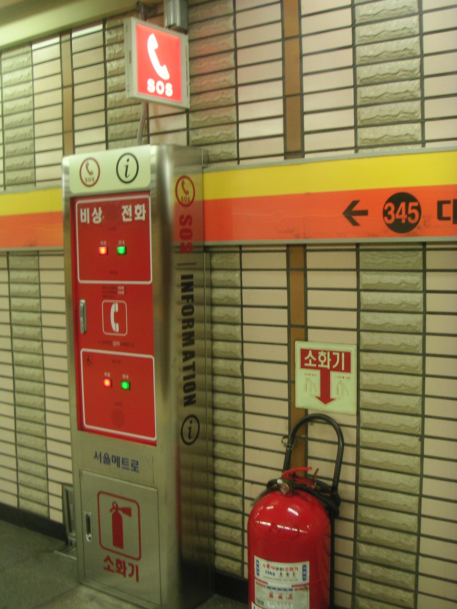 I took this picture myself for use in Wikipedia.